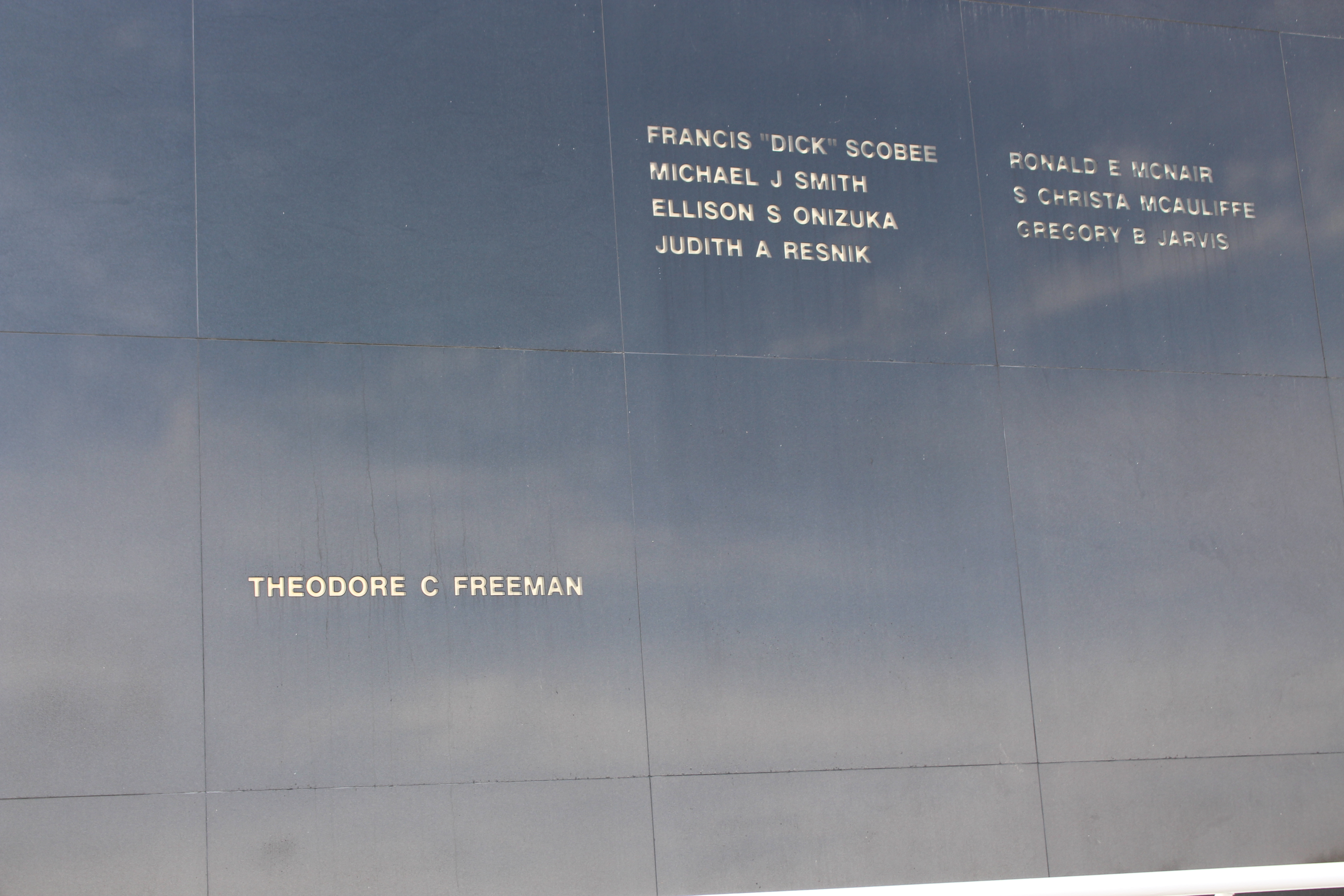 Space Mirror Memorial, Kennedy Space Center, Brevard County, Florida